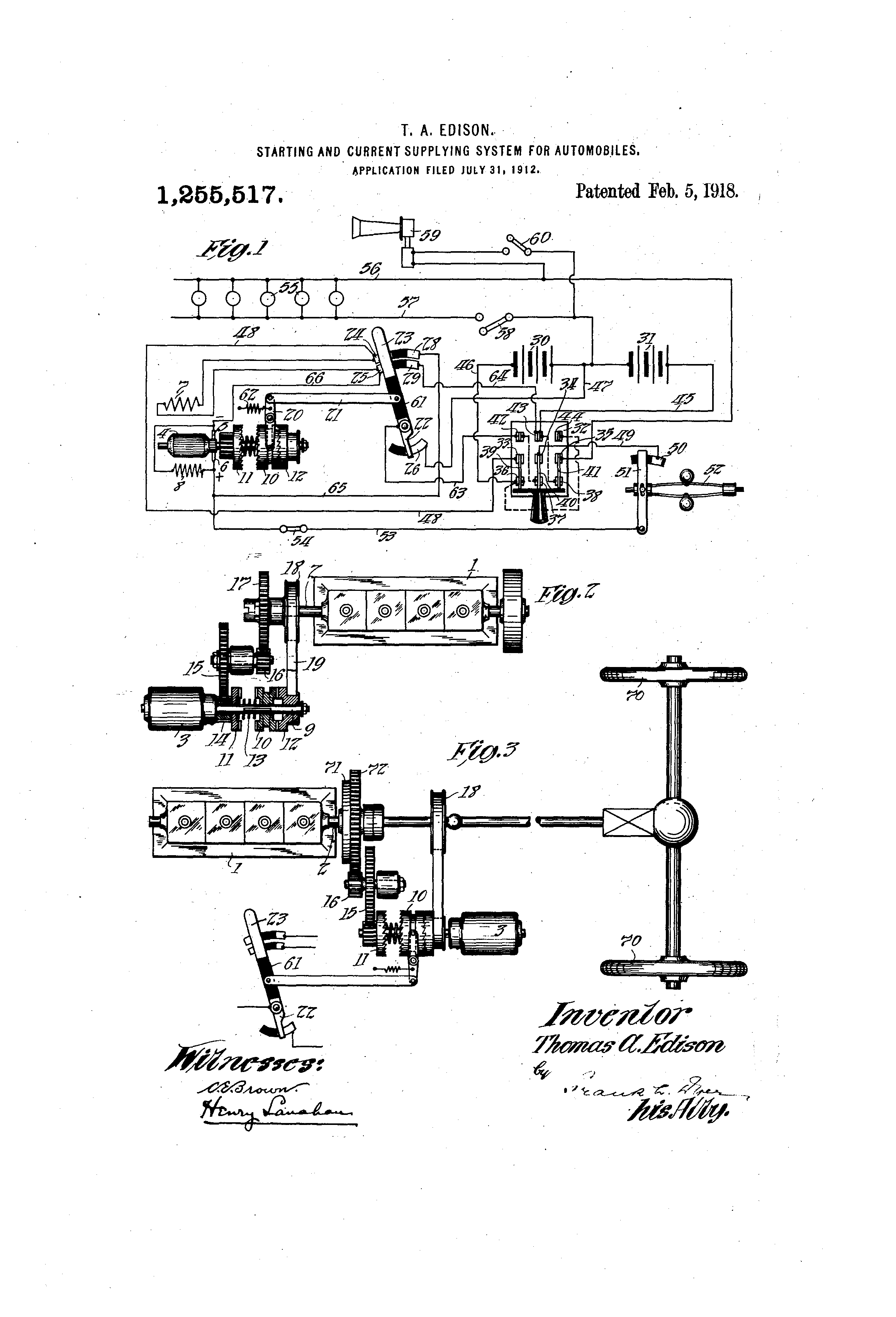 U.S. Patent 1,255,517, Thomas Edison, Starting and current supplying system for automobiles